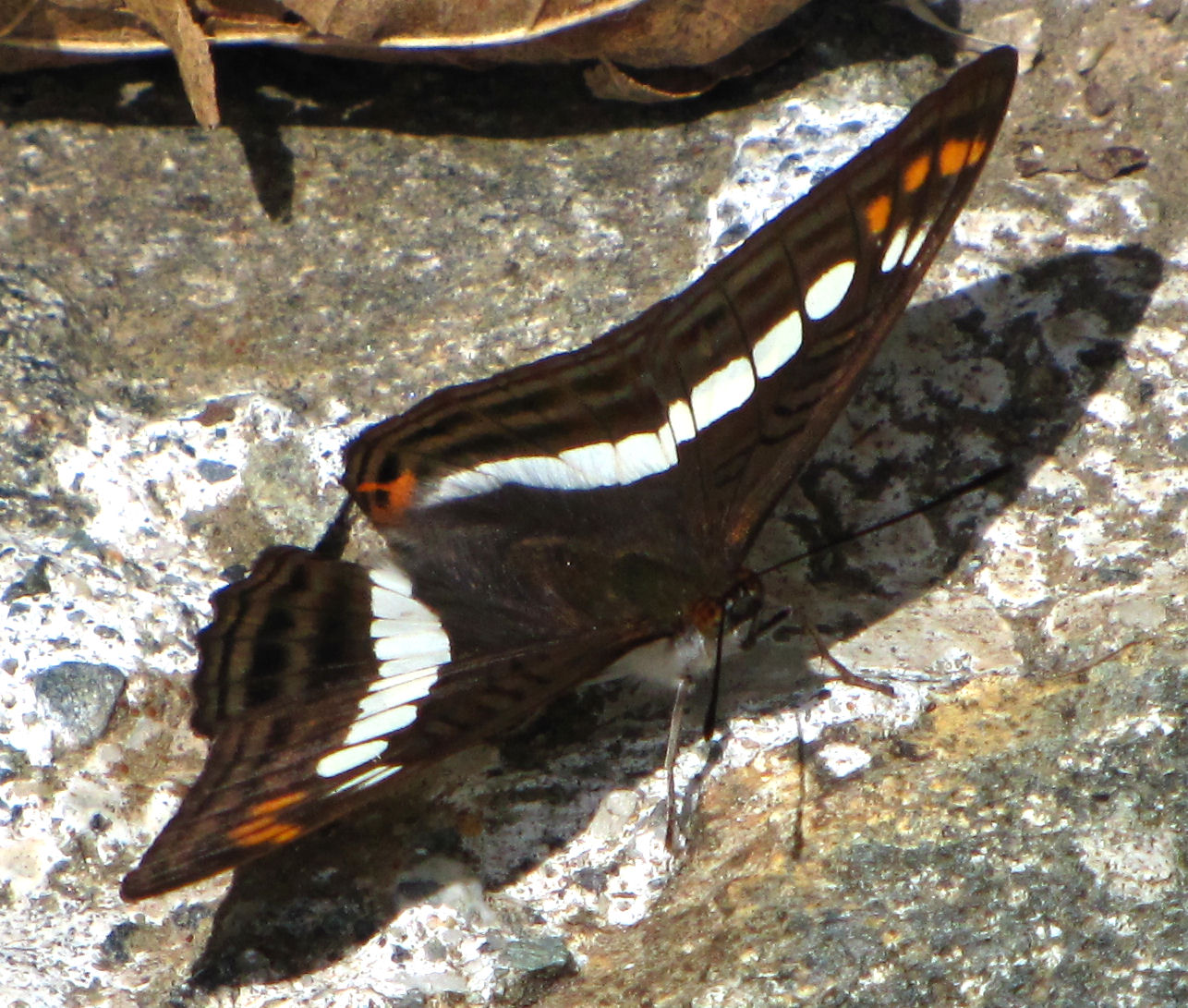 Alala Sister (Adelpha alala), Arvi Park, Medellin, Colombia